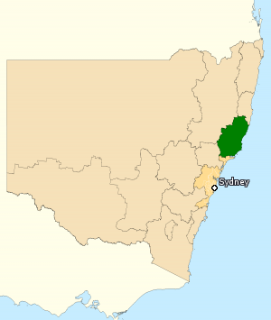 Incorporates or developed using Administrative Boundaries ©PSMA Australia Limited licensed by the Commonwealth of Australia under Creative Commons Attribution 4.0 International licence (CC BY 4.0). Derived from State and Territory Boundaries from the Australian Bureau of Statistics under Creative Commons Attribution 2.5 Australia license (CC BY 2.5 AU)